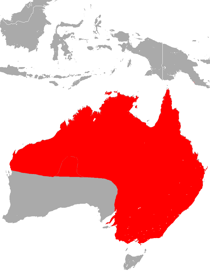 Yellow-Bellied Pouched Bat (Saccolaimus flaviventris) range